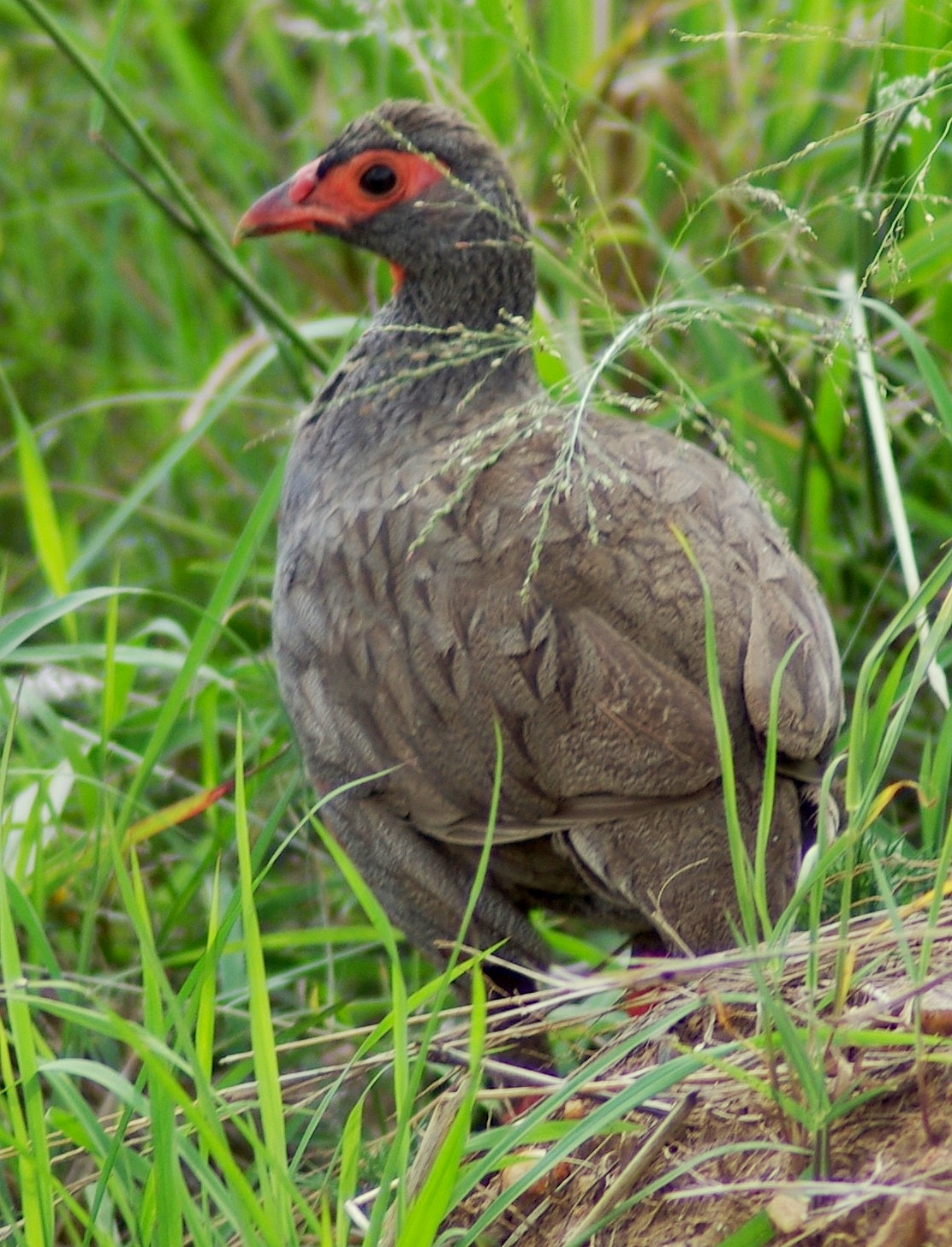 Red-necked Spurfowl Pternistis afer cranchii, Masai Mara National Park, Kenya. Possibly a sub-adult? The time stamp is 10 hours too early.